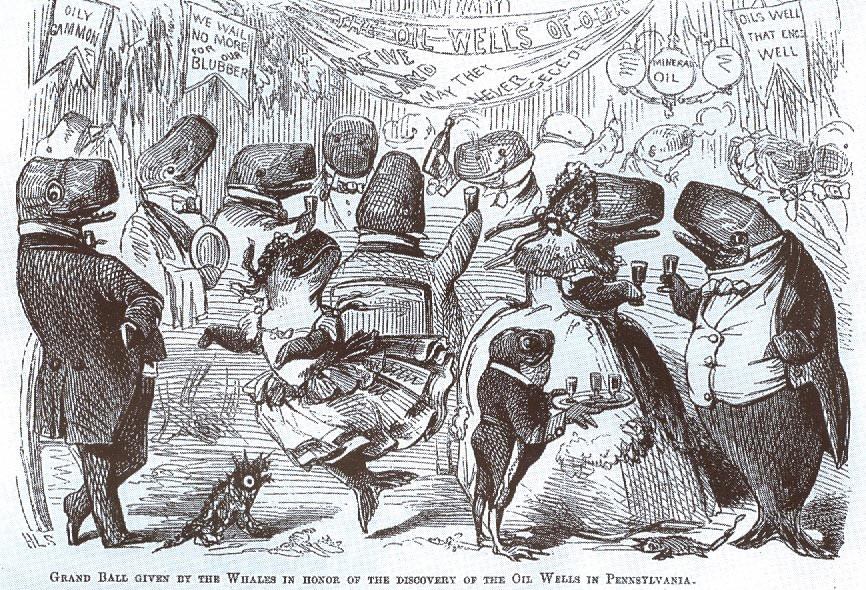 A group of sperm whales celebrate the discovery of new oil wells in Pennsylvania. The proliferation of petroleum oils reduced the demand for whale oils.